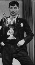 Severo Fernández- actor argentino